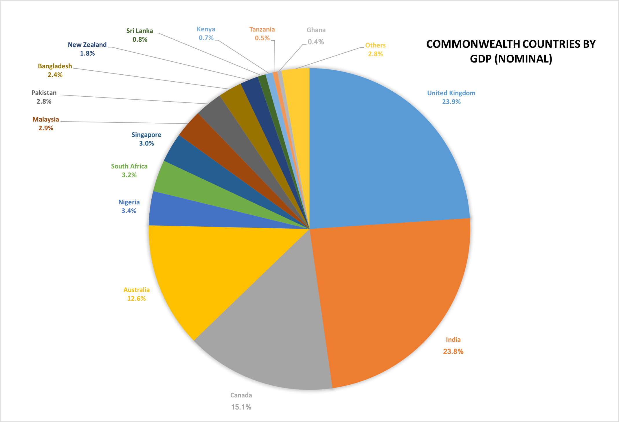 A colour-coded pie chart showing the share of nominal GDP of the Commonwealth of Nations. 15 member countries with the highest GDP are shown individually; the combined GDP of other member countries are shown in the 'Others' sector. Sources used are the IMF, and the United Nations for Nauru.